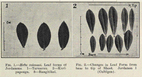 Hebe jordanon